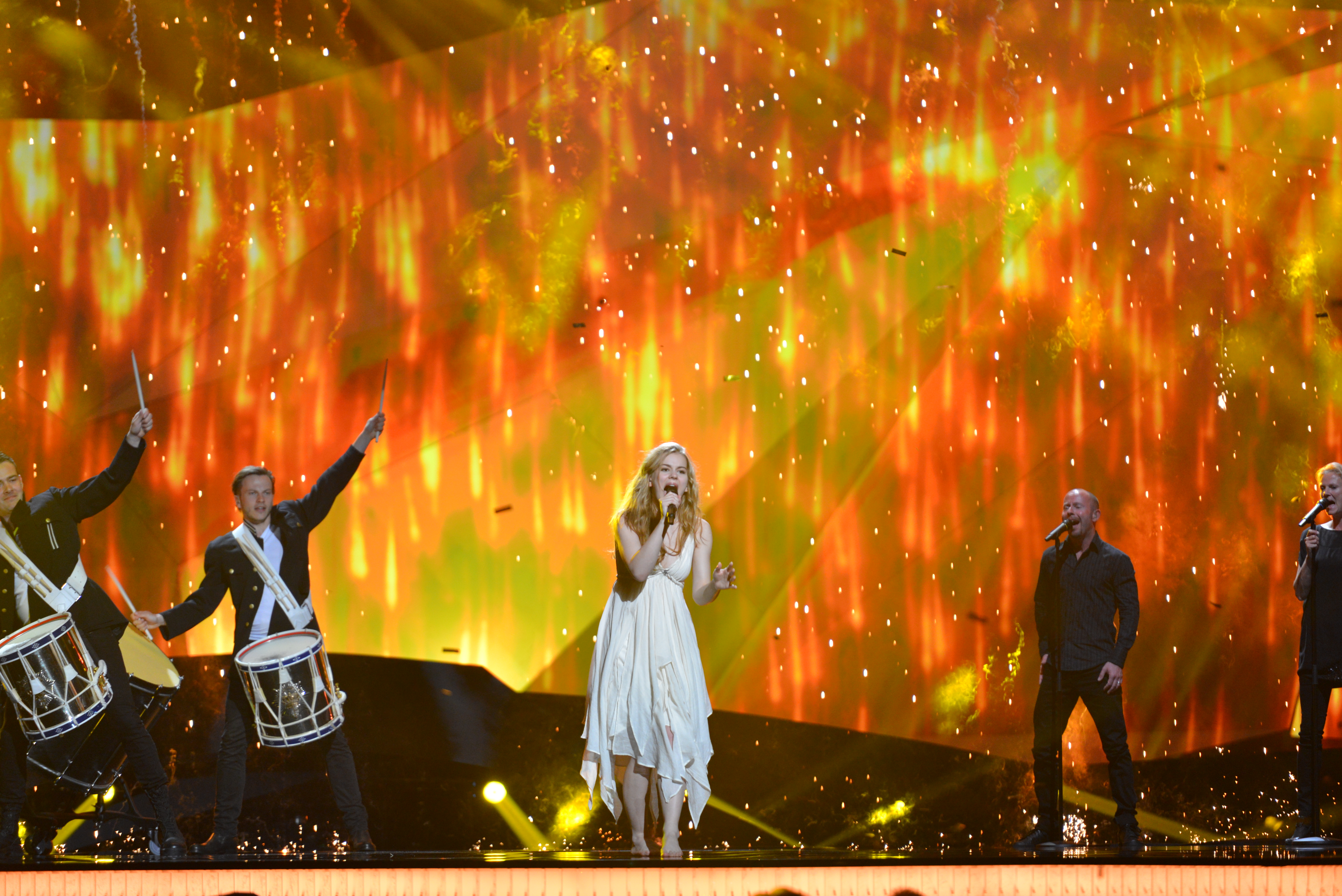 Emmelie de Forest representing Denmark with the song "Only Teardrops" during the first dress rehearsal of the final of the Eurovision Song Contest 2013 in Malmö. (Help translate this text)